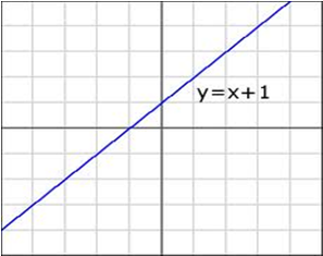 funksiya